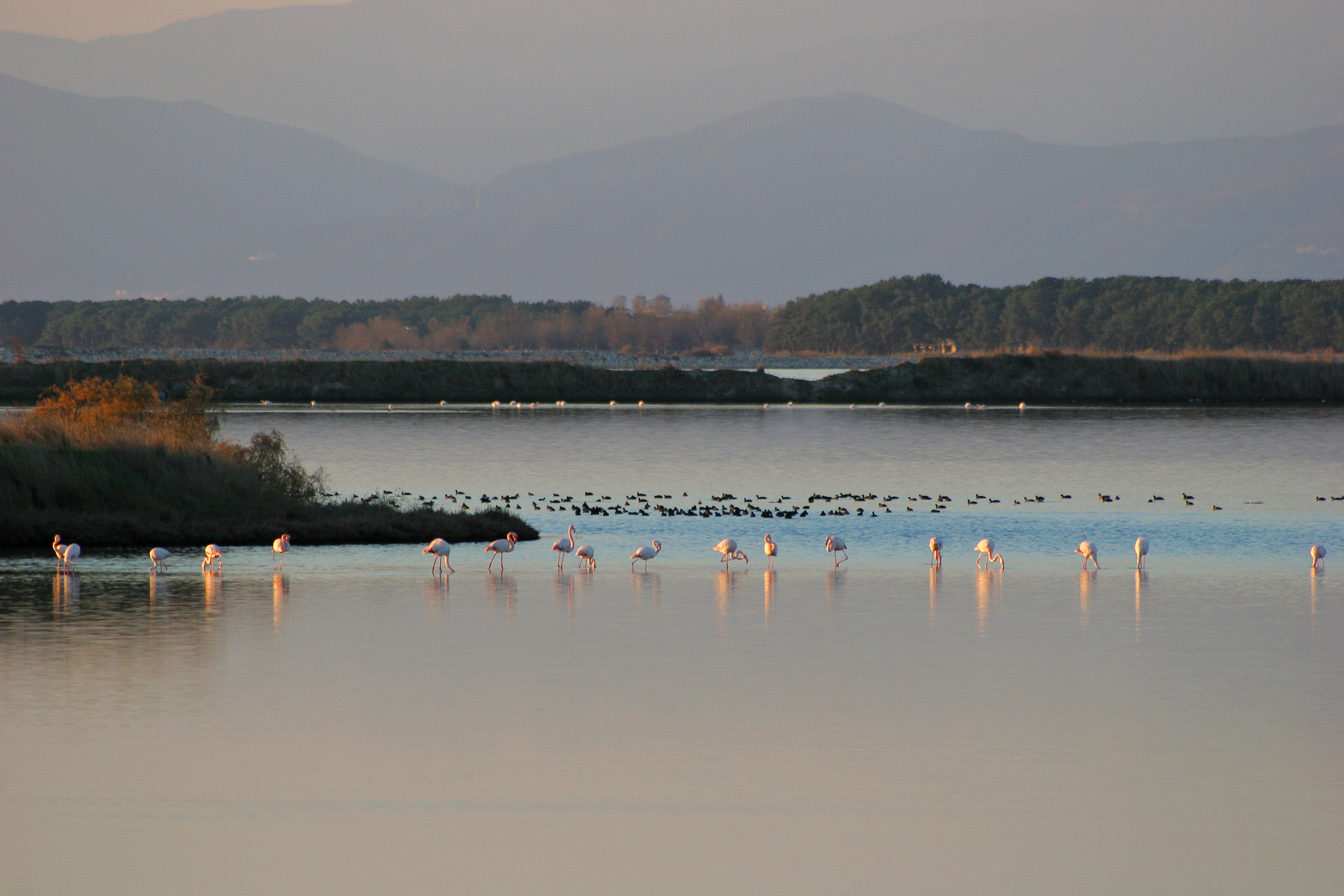 This is a photography of Natura 2000 protected area with ID GR1130010